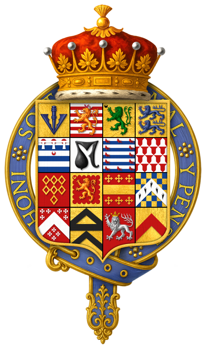 Coat of arms Sir Robert Sidney, 1st Earl of Leicester, KG. Heraldic impression of arms of Robert Sidney in one of 55 books purchased by the Bodleian Library with his donation in 1600 of £100 The arms of Robert Sidney, 1st Earl of Leicester showed sixteen quarters as follows:[1] 1. A pheon (Sydney) 2. Barry of ten a lion rampant crowned (Brandon) 3. A lion rampant double queued (Dudley) 4. Two lions passant (Somerie) 5. Barry of six in chief three torteaux a label of three points for difference (Grey, Viscount Lisle) 6. A maunch (Hastings) 7. A wolf's head erased (Lupus, Earl of Chester) 8. Barry of ten as many martlets in orle (de Valence, Earl of Pembroke) 9. Party per pale or and vert, a lion rampant gules (Marshall, Earl of Pembroke) 10. Seven mascles conjoined three and one (Ferrers of Groby) 11. A lion rampant within a bordure engrailed (Talbot) 12. A fess between six crosses crosslet (Beauchamp) 13. Checky, a chevron ermine (Newburgh, Earl of Warwick) 14. A lion statant gardant crowned (Lisle of Kingston Lisle, Baron de Lisle) 15. A chevron (Tyes) 16. A fess dancetty (West); over-all an inescutcheon of pretence of his wife's paternal arms: quarterly: 1. Five fusils in bend on a chief three escallops (Gamage) 2. Vair (Beauchamp of Hatch/Martel?) 3. Checky, a fess ermine (Turberville of Coity Castle) 4. Three chevrons (Llewellyn)